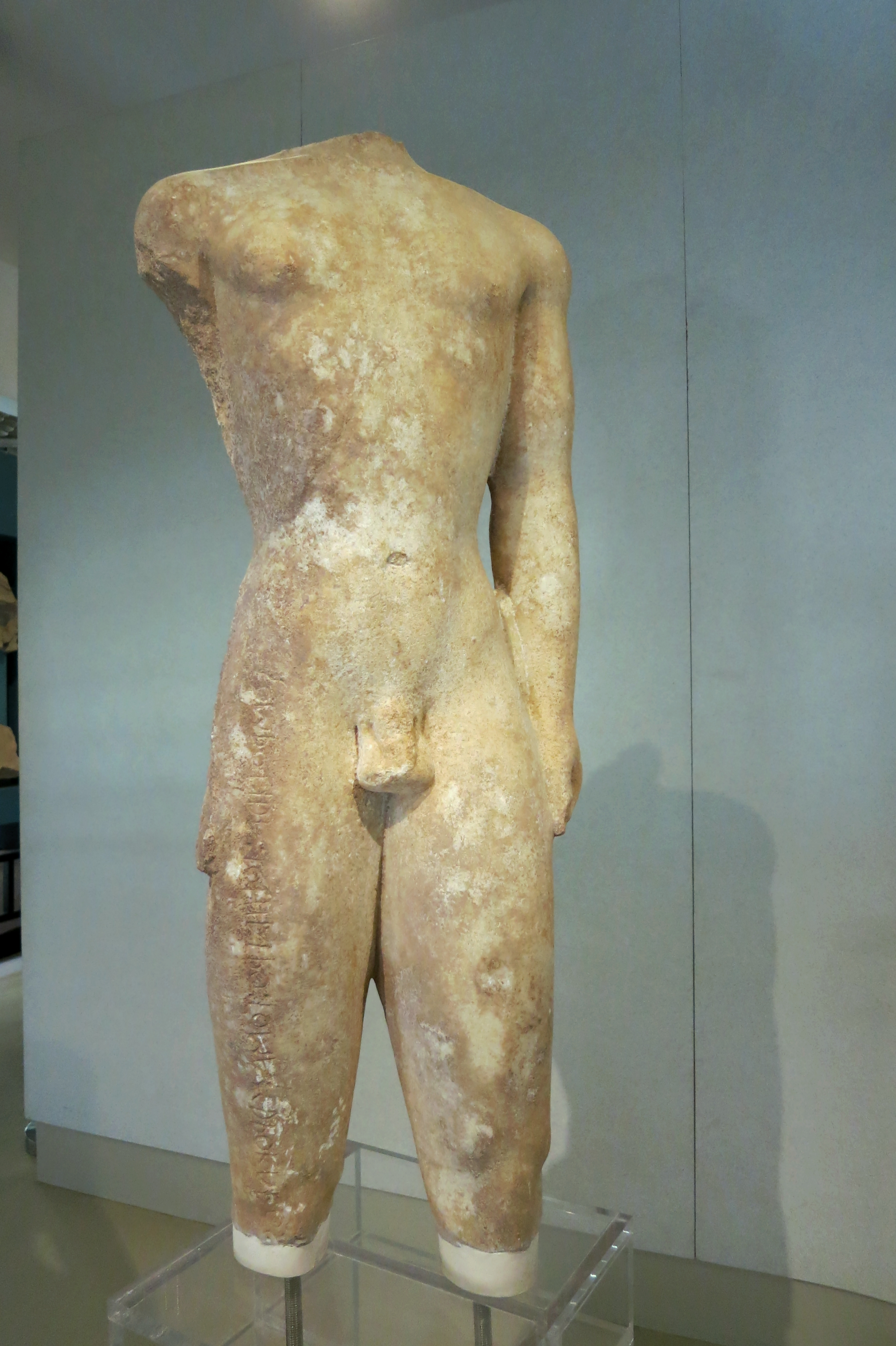 Funerary kouros, Ionic (Naxian) influence. Around 550 BC. Found at the burial site in Megara Hyblea. Inscription in megarian (Greek-Sicilian) version alphabets identifies him: doctor Sombrotides son of Mandrokles. Naxian marble, some finished works in Megara Hyblaea of Naxian intermediate product. Archaeological Museum of Syracuse.